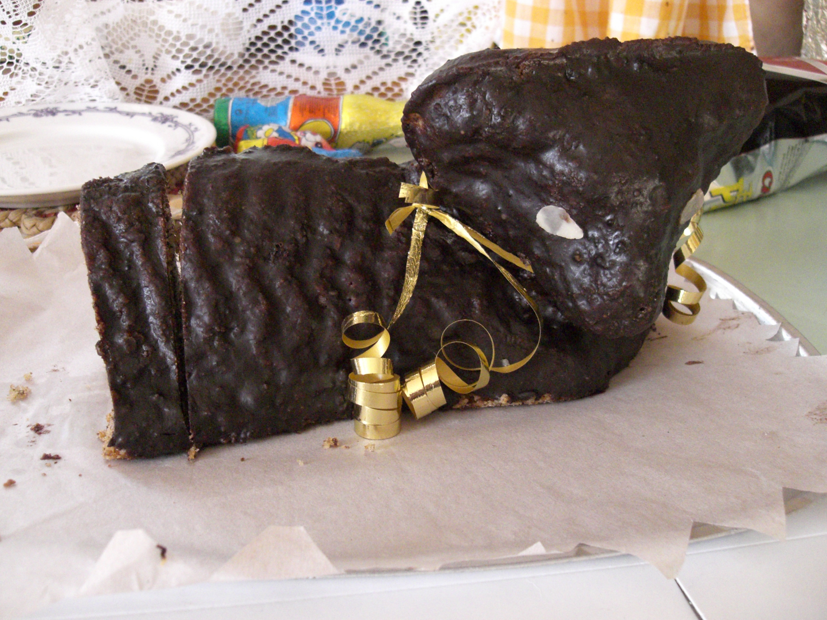 Easter chocolate lamb - special kind of czech sweet pastry.